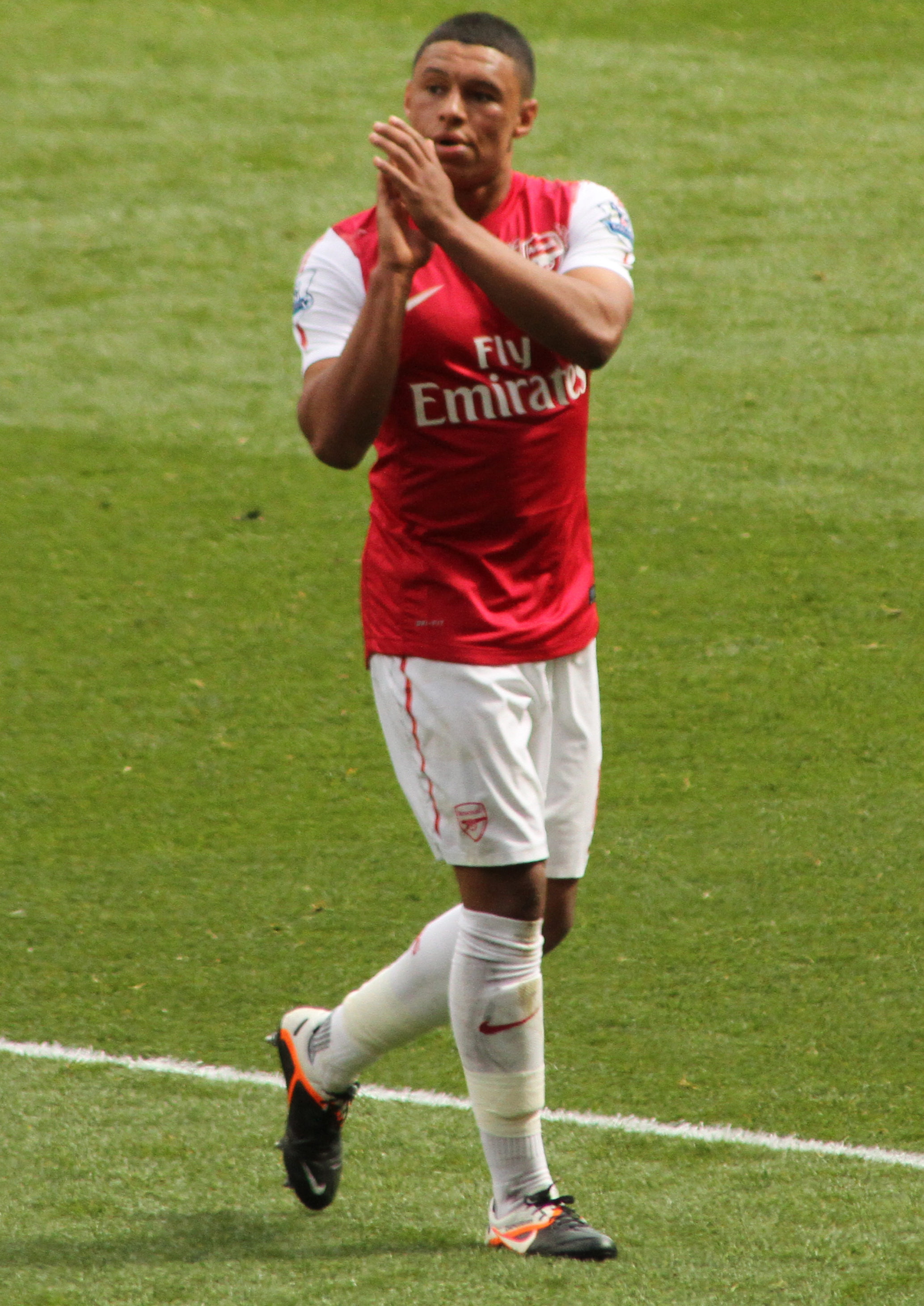 Alex Oxlade-Chamberlain clapping.